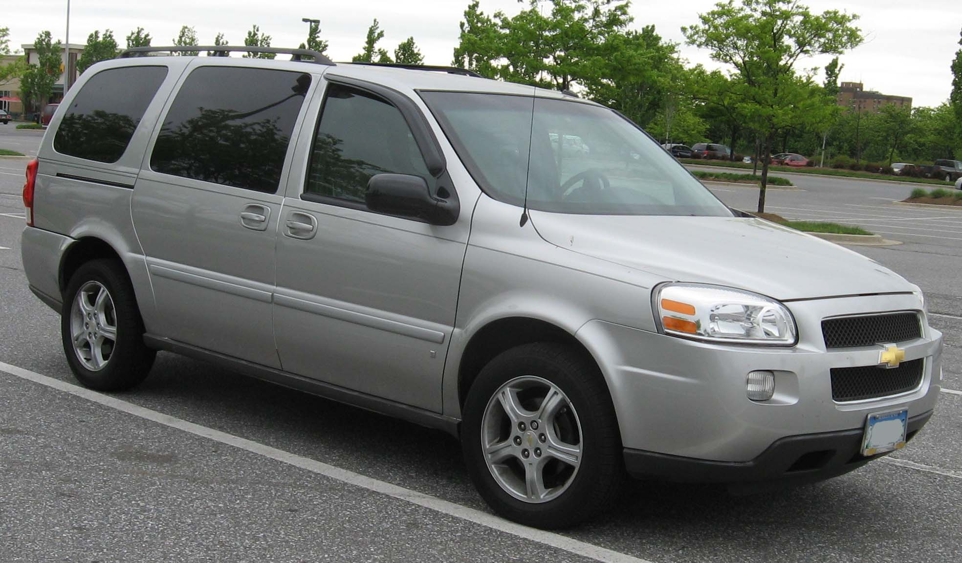 2005-2007 Chevrolet Uplander photographed in USA.